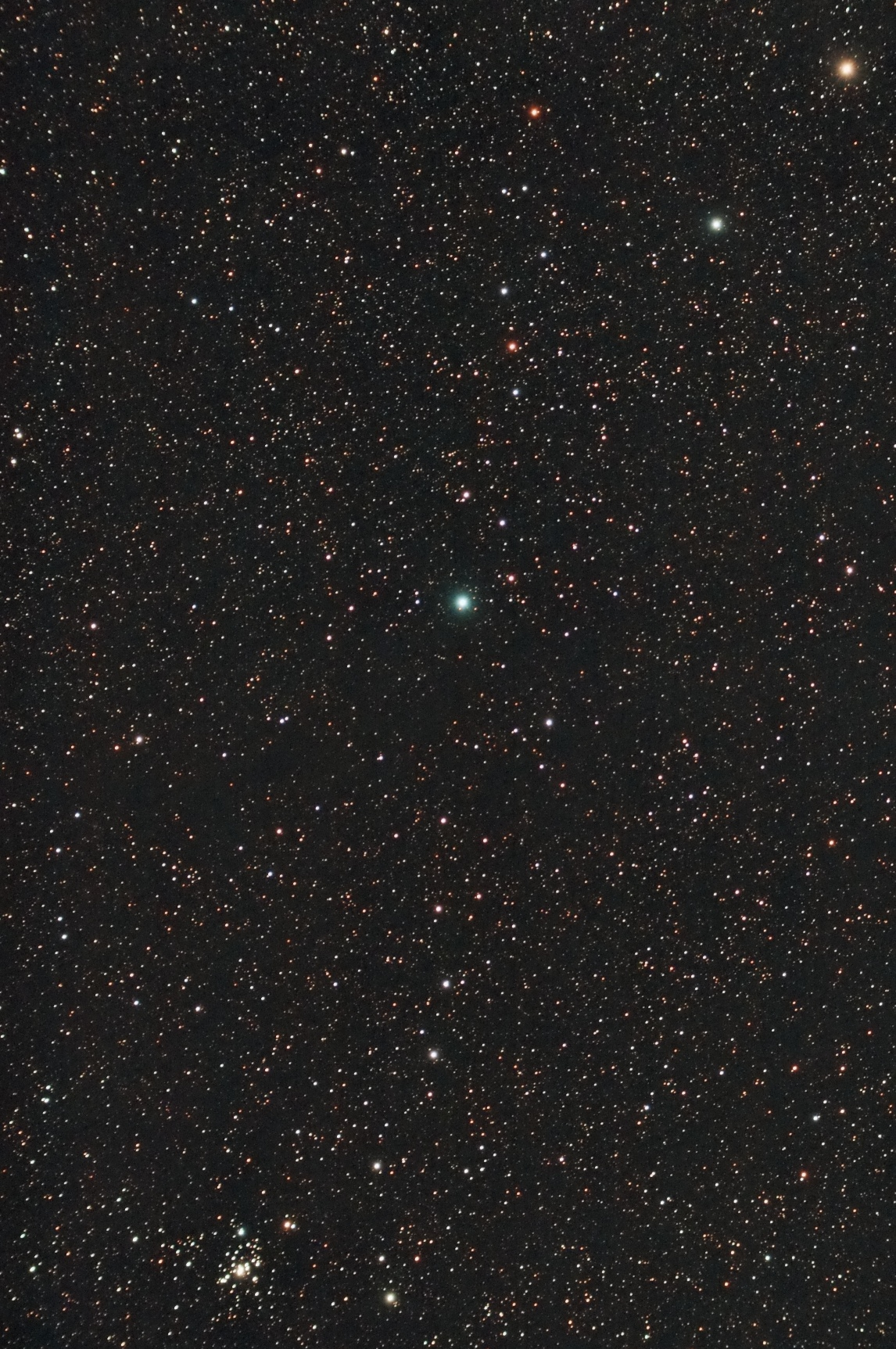 Amateur image of Kemble's cascade. Kemble's cascade is a straight line of 20 variously coloured stars (aligned vertically on the image). An open cluster NGC 1502 is shown in bottom left corner.